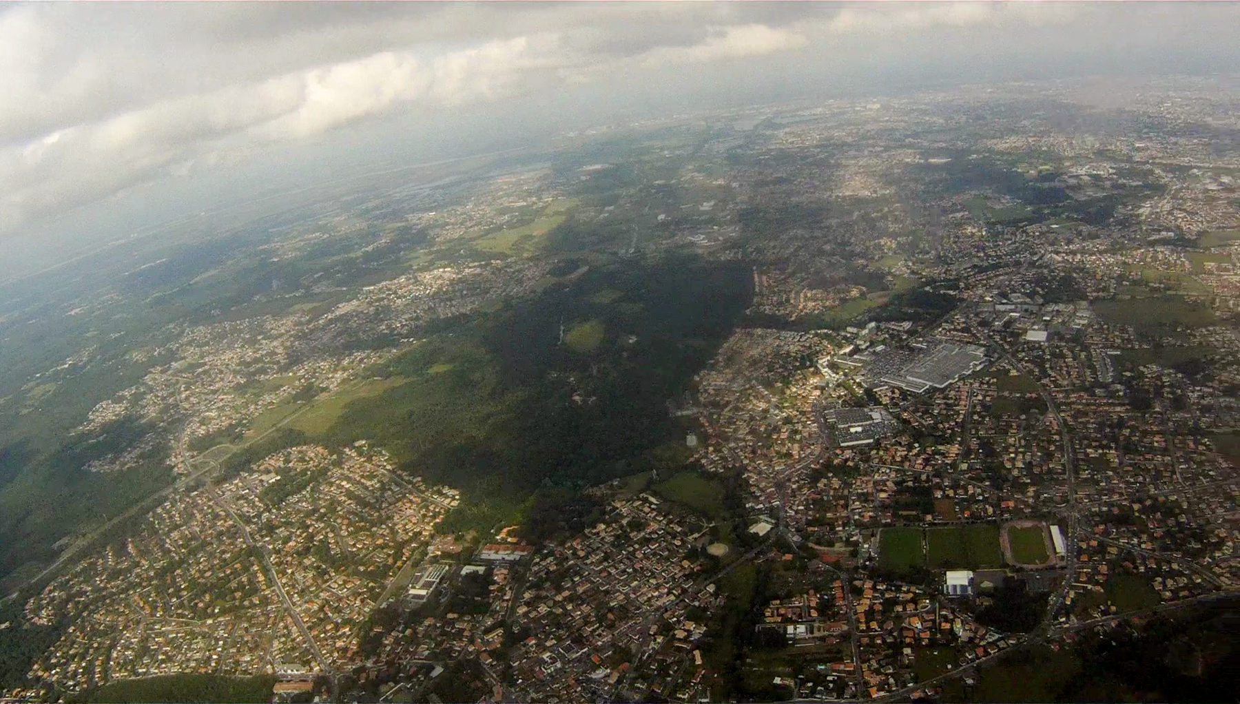 St-Médard vue d'un parachute